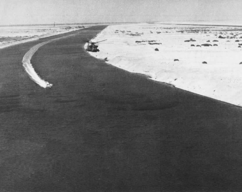 A U.S. Navy Sikorsky RH-53D of helicopter mine countermeasures squadron HM-12 Sea Dragons sweeping the Suez Canal using an Mk 105 minesweeping gear during Operation Nimbus Moon in 1974.